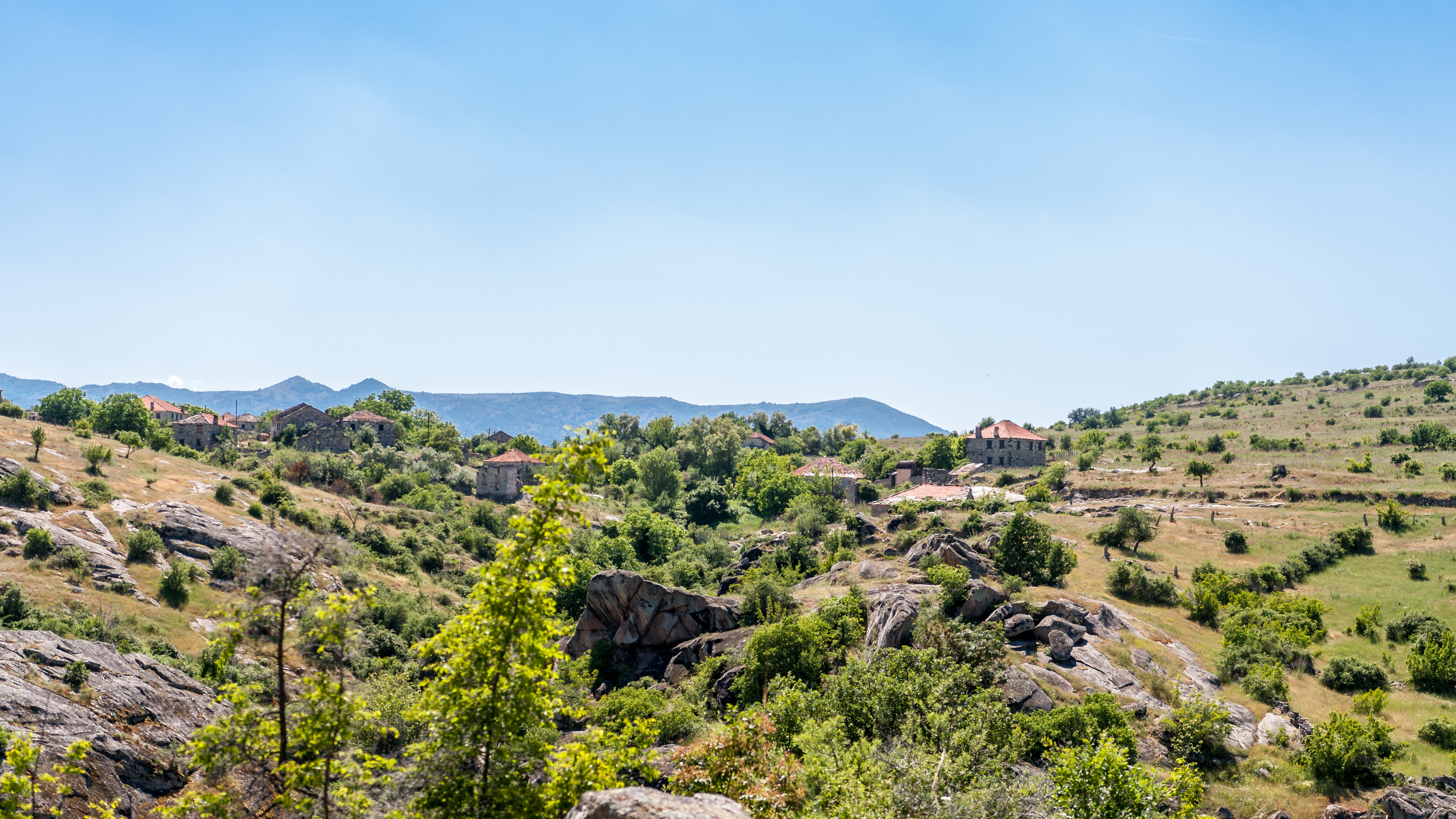 Panoramic view of the village Zoviḱ